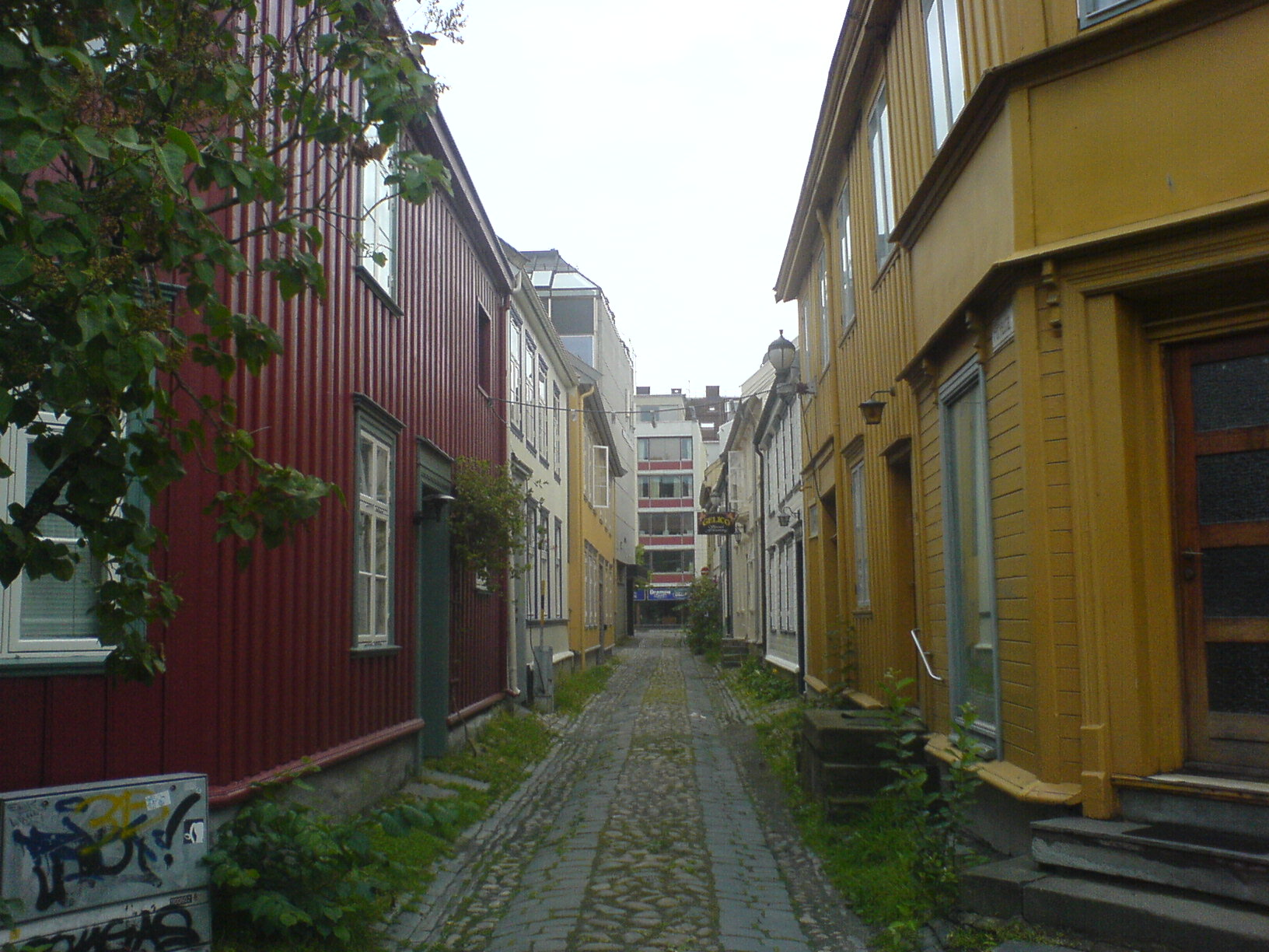 Fotveita alley in Trondheim, Norway.